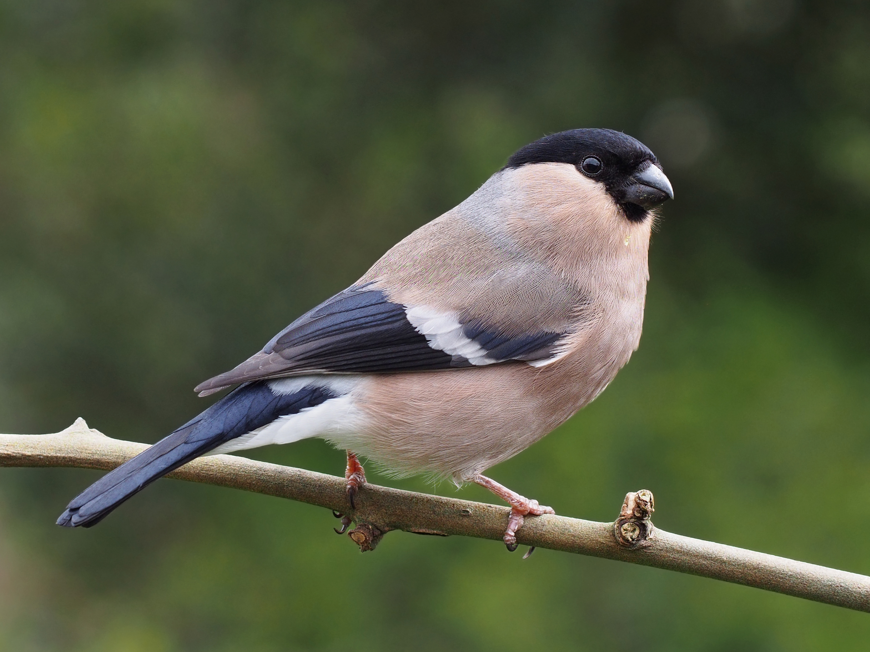 Eurasian Bullfinch, Pyrrhula pyrrhula, female